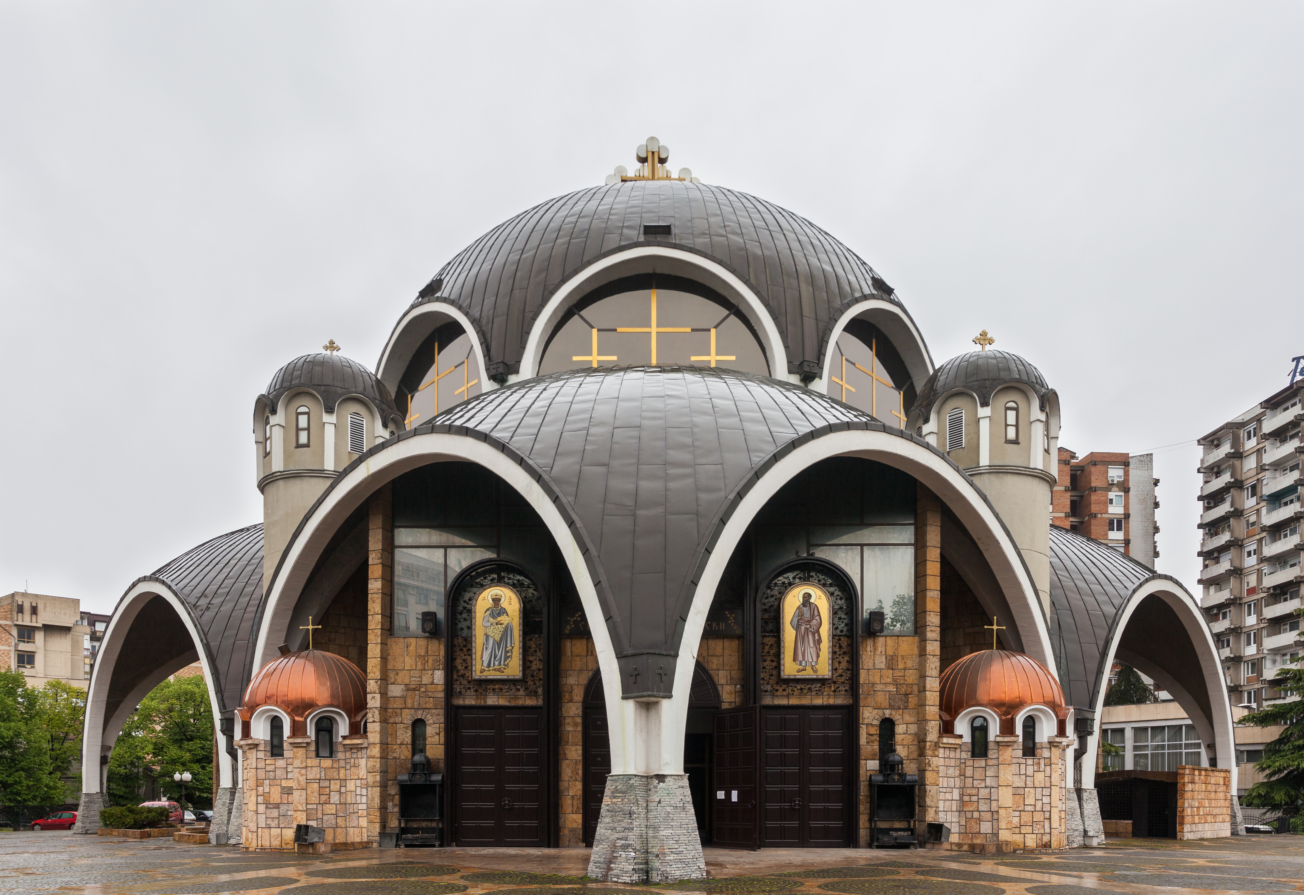 Frontal view of the church of St. Clement of Ohrid, Skopje, capital of the Republic of Macedonia. The Orthodox Cathedral church was designed by Slavko Brezovski and was consecrated in 1990, after 18 years construction period. This rotunda type church, with 36m x 36m dimension and composed only of domes and arches, is one of the most interesting architectural examples in recent Macedonian history and is today the largest cathedral of the Macedonian Orthodox Church.